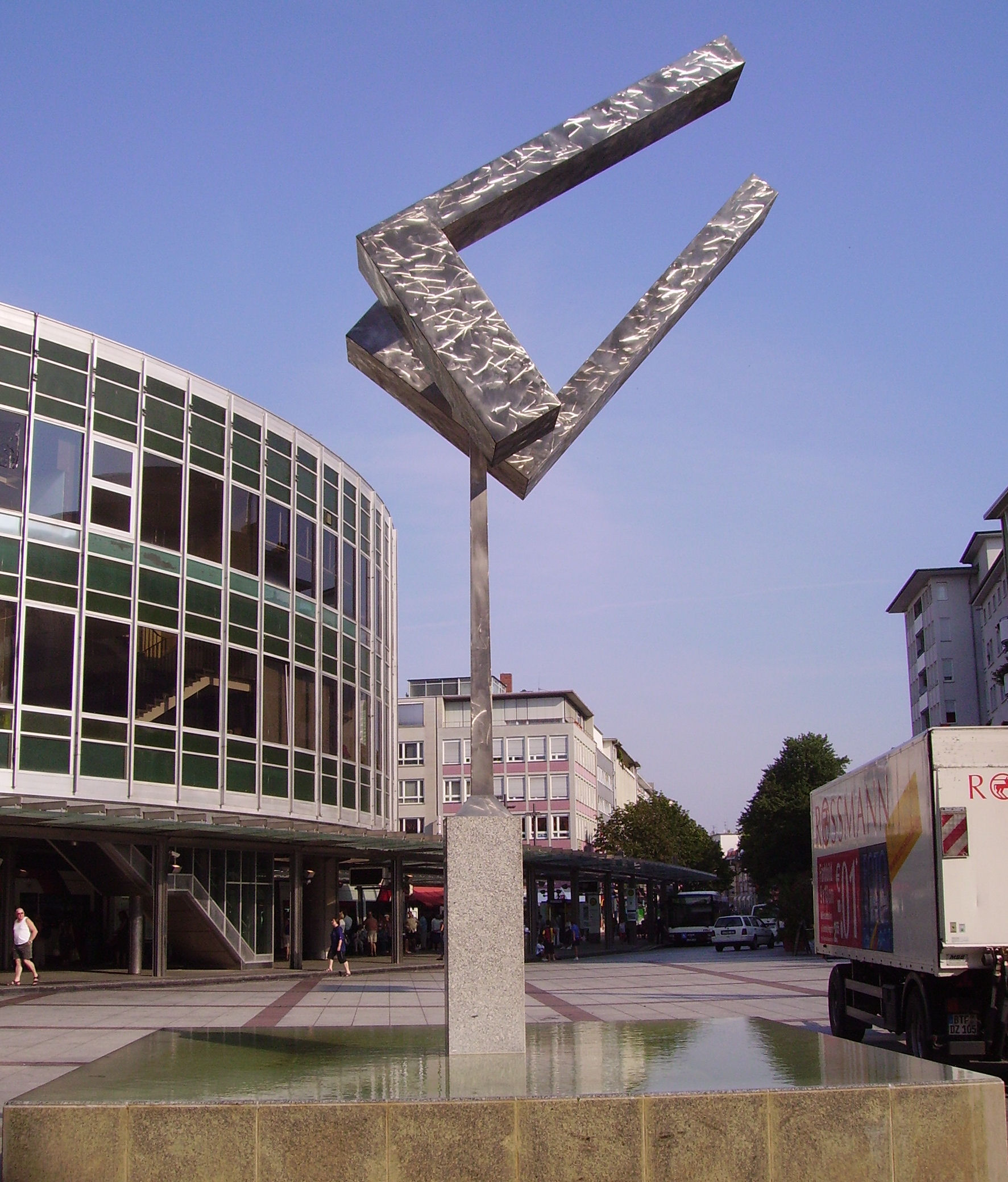 Kinetic art "Conversation" 1999 by George Rickey in Ludwigshafen, Germany